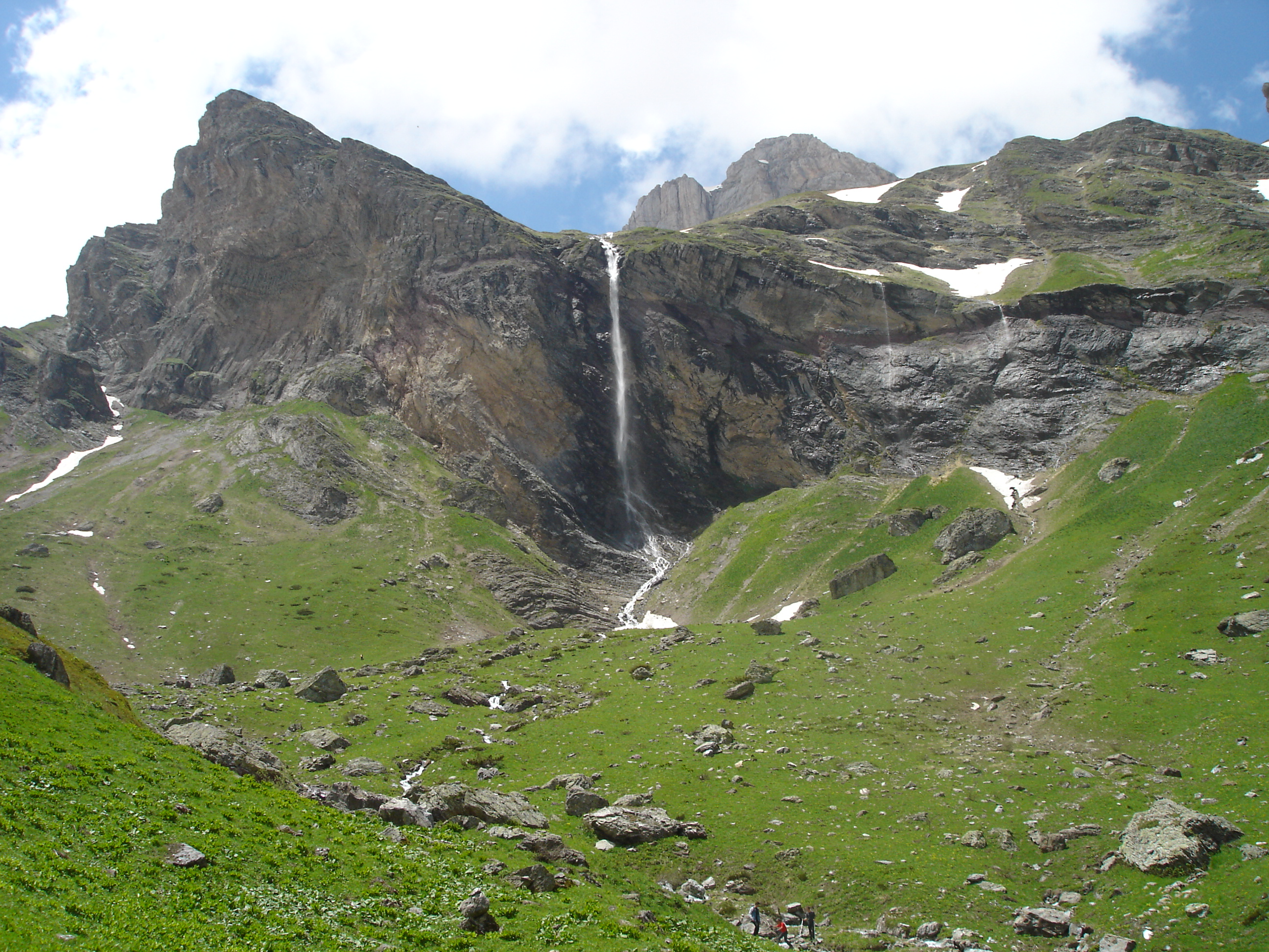 Korab waterfall, Macedonia